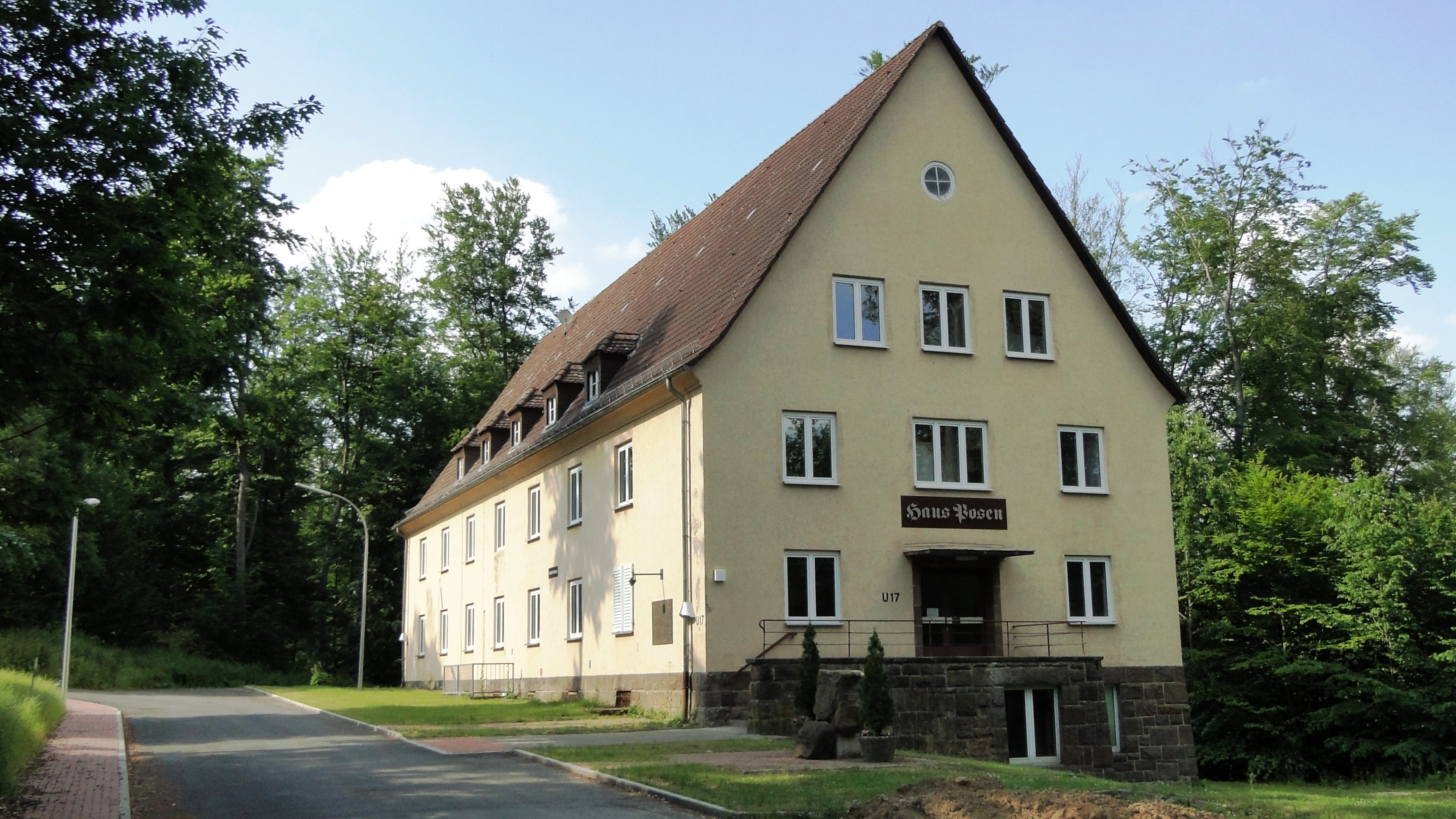 Haus Posen at the former Fritz Erler Kaserne/Airfield Rothwesten at Fuldatal Rothwesten near Kassel, Germany. Site of the Rothwesten Conclave in 1948. Today a museum. June 2015.